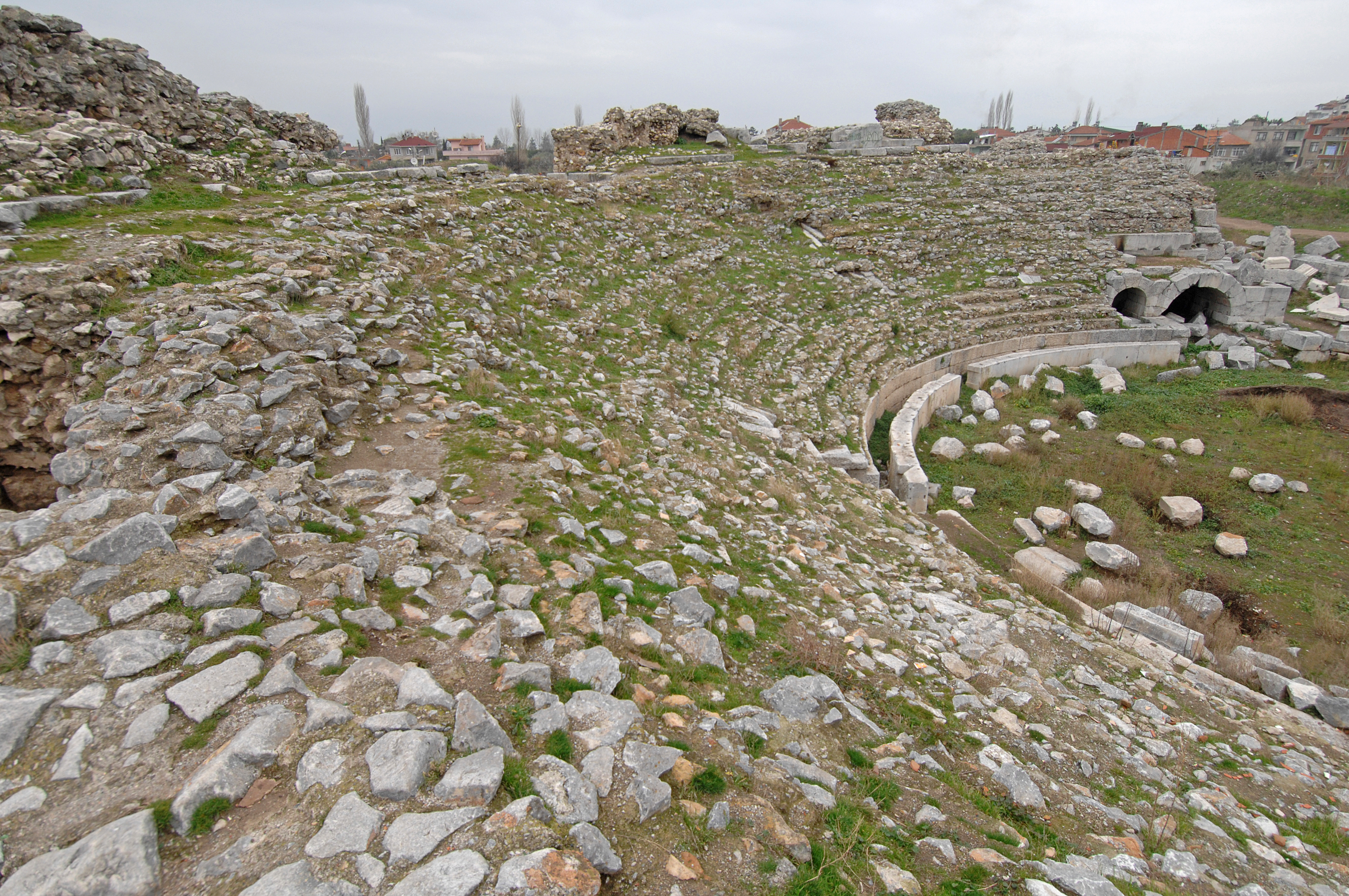 The Roman theatre, constructed (along with a gymnasium) by Pliny the Younger when he was governor of Bithynia as the area was then called. It was later destroyed by the Byzantines to strengthen the city walls, but a decent amount has been dug up. In 2018 I found work was still going on, from earlier visits I knew there are quite good architectural parts about to warrant a good restoration.